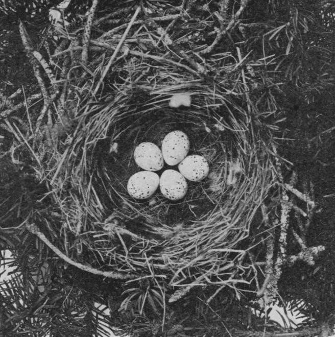 Egg and nest of Bombycilla garrulus